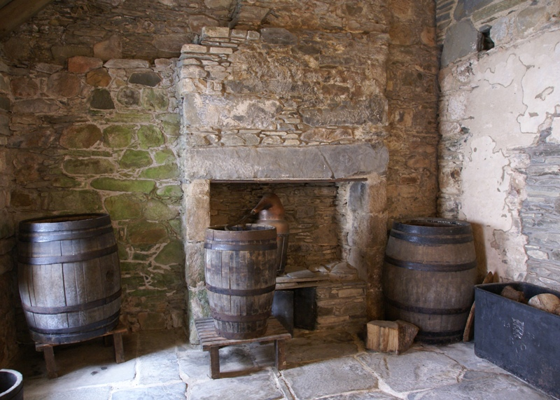 Corgarff Castle, Aberdeenshire, Scotland. Distillery in the west pavilion.